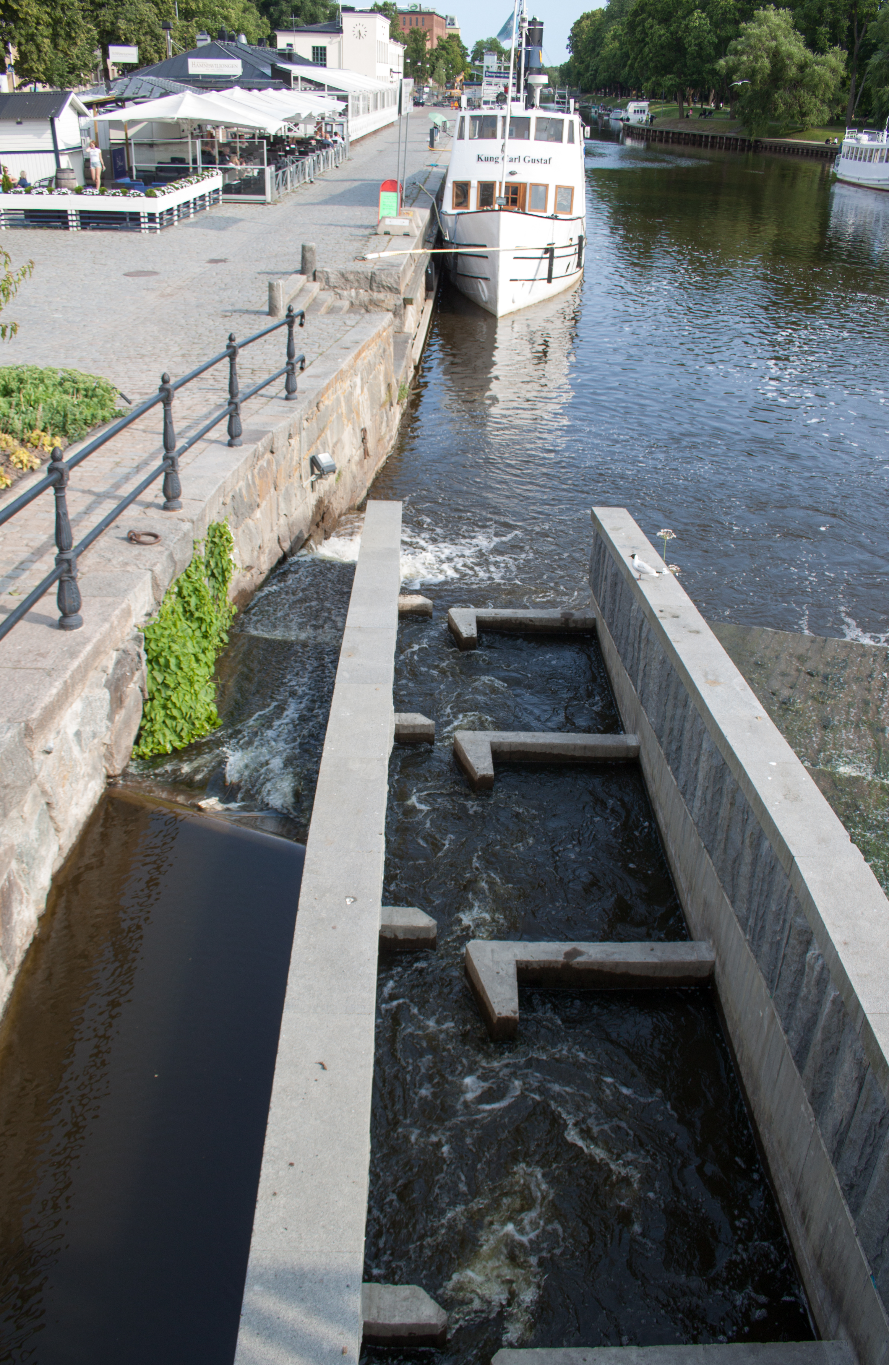 Fish ladder on the Fyris river in Uppsala, river port in the background